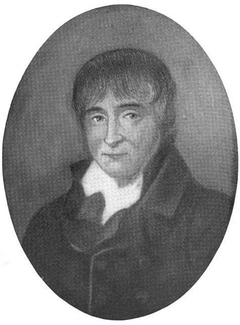 John Rhea (1753–1832), U.S. Congressman and Revolutionary War veteran from Tennessee.